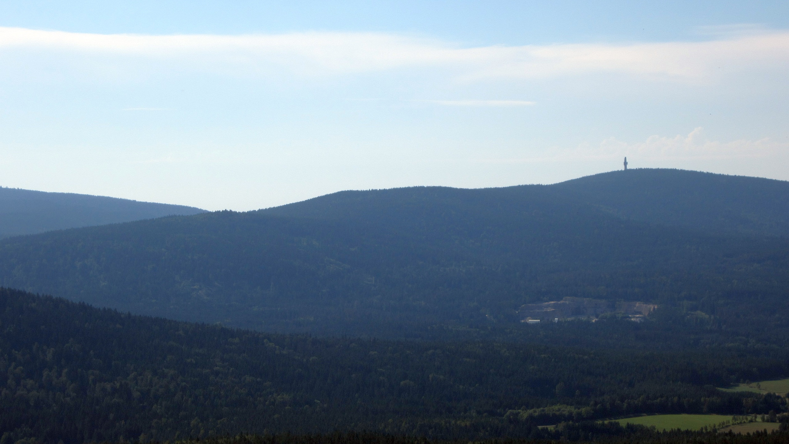 Schneeberg (Fichtelgebirge) from Kösseine